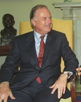 "Photograph of President William J. Clinton Meeting with Los Angeles Mayor Richard Riordan"